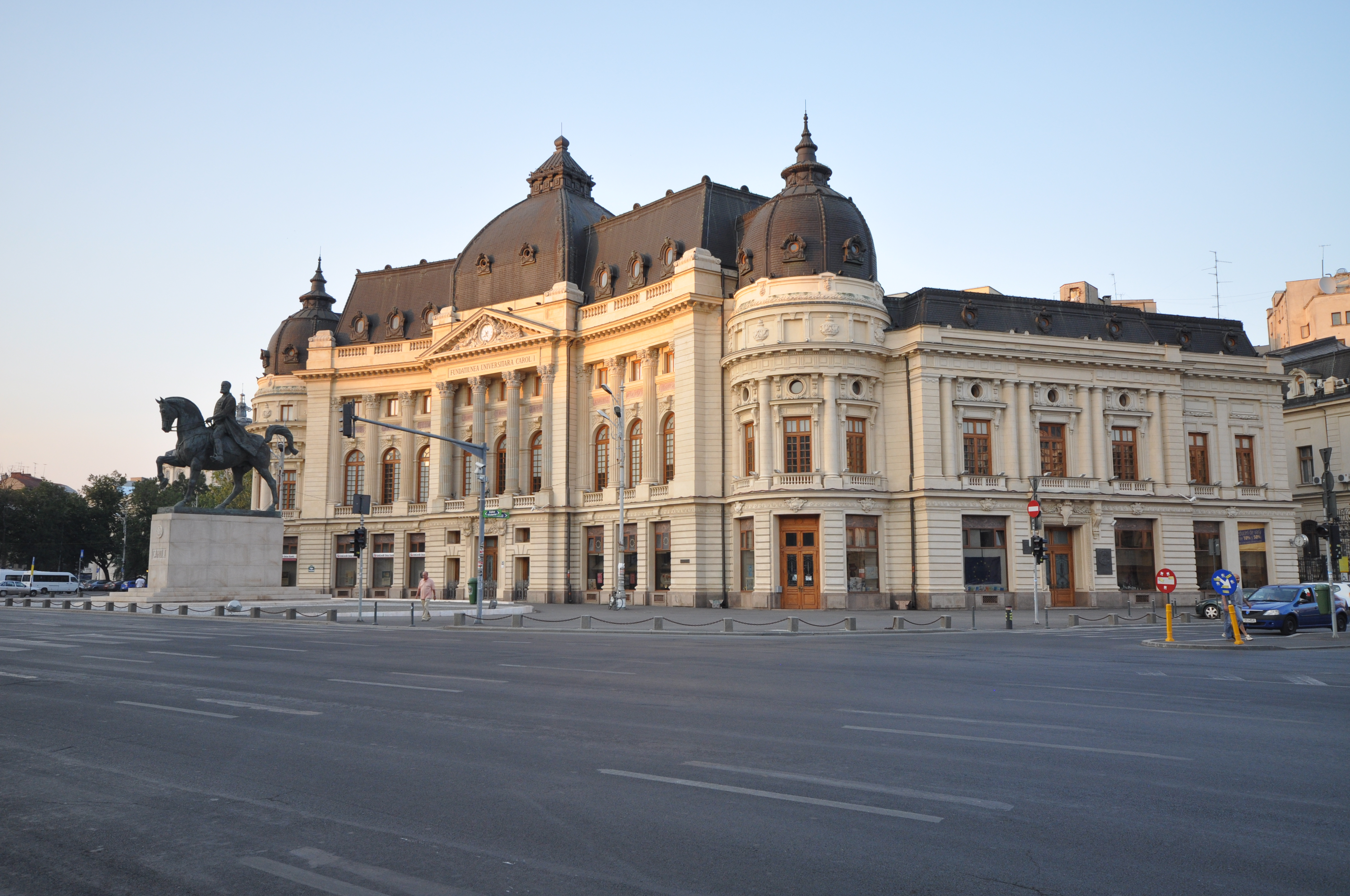 The Central University Library of Bucharest (Romanian: Biblioteca Centrală Universitară) is a library in central Bucharest, located across the street from the National Museum of Art of Romania